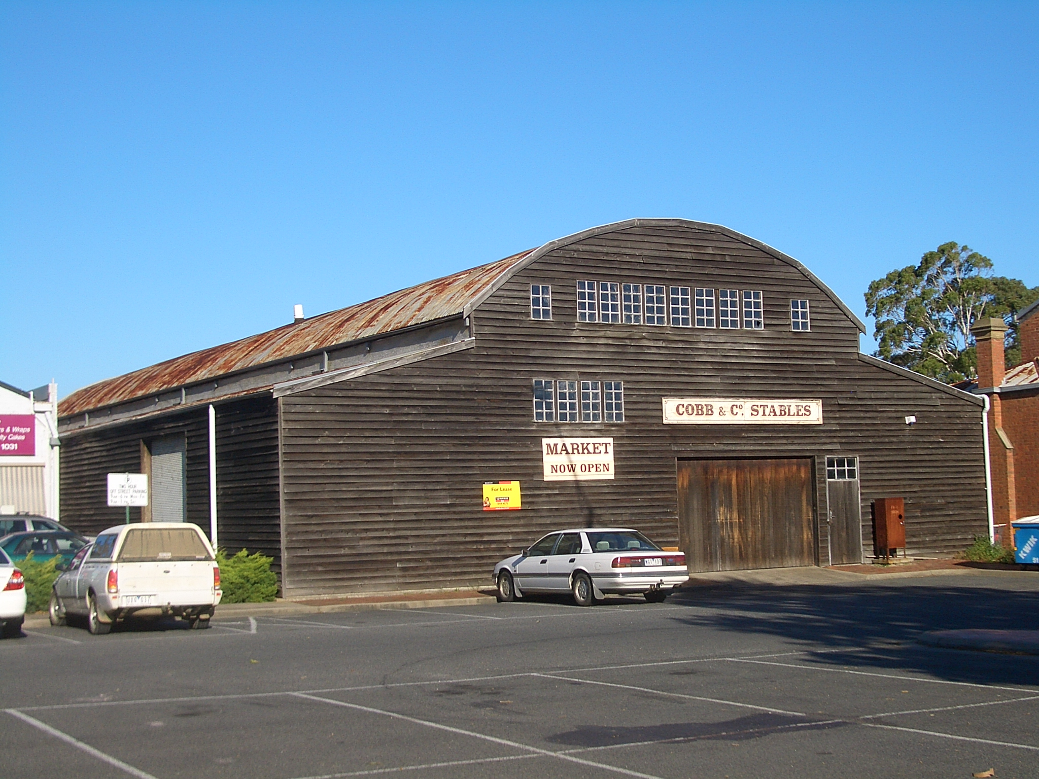 In the central section of Sale, Victoria